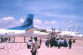 Airline landing at bosaso airport